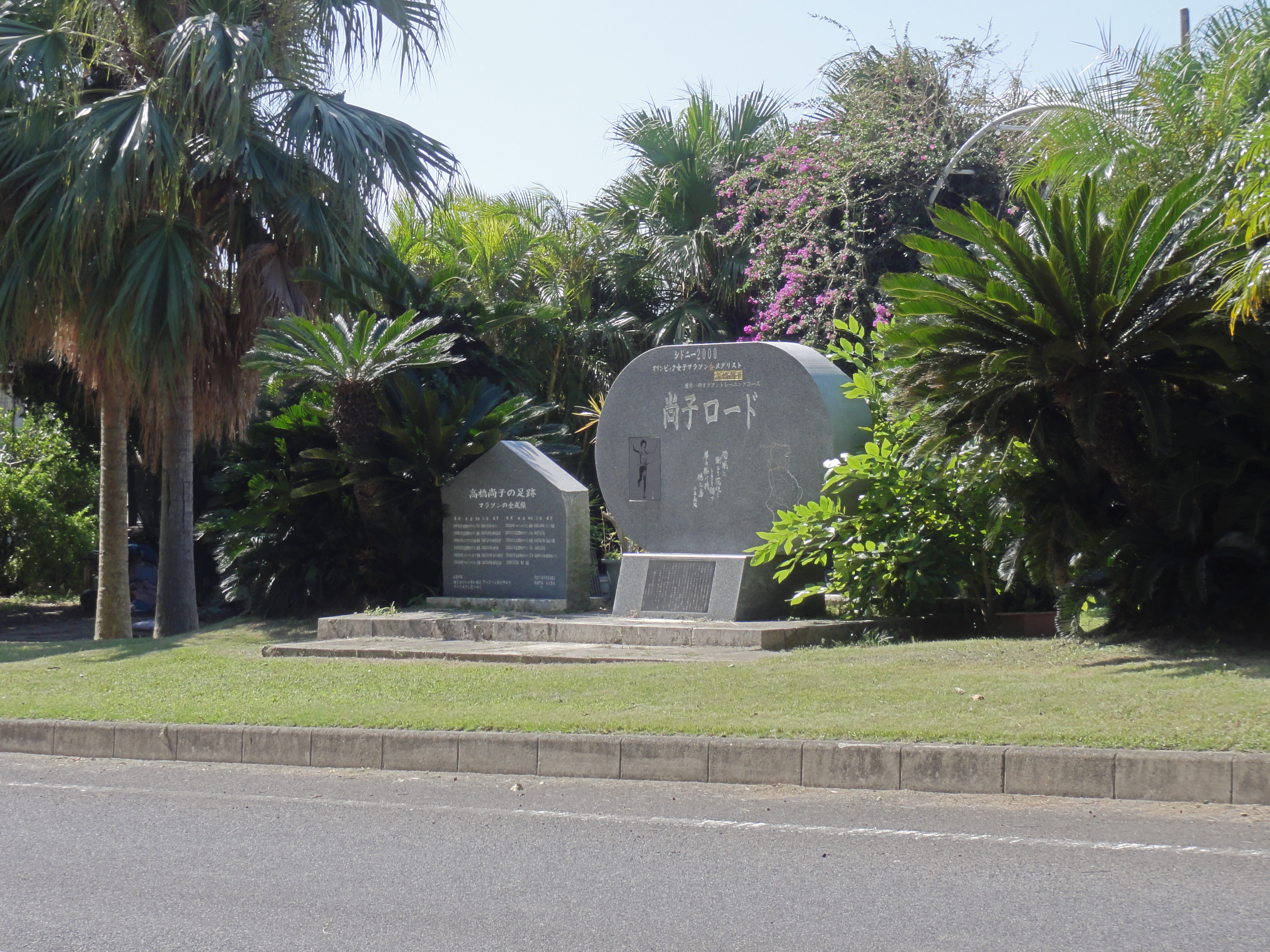 Naoko road inTokunoshima,Kagoshima Pref., Japan